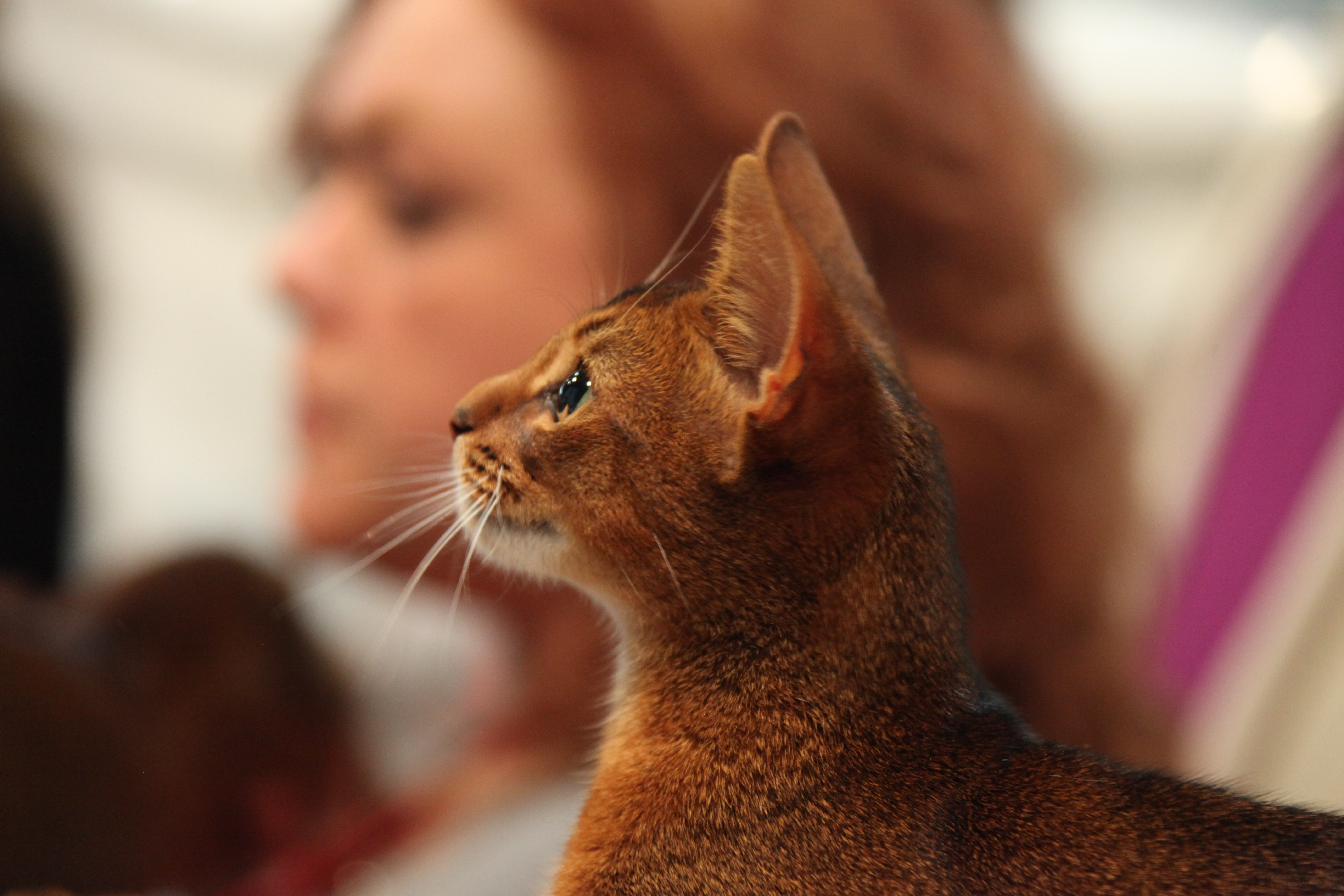 Abyssinian cat in Fife Worldshow 2009 Sankt Gallen.